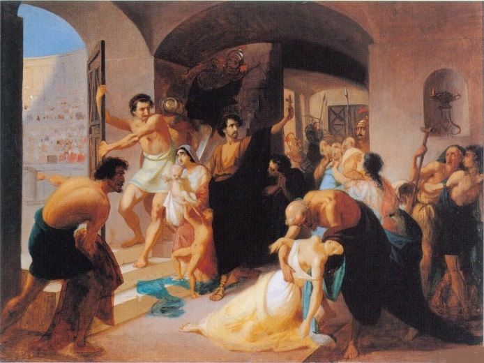 Christian martyrs in the Colosseum, study (painting by Konstantin Flavitsky, now in Tretyakov Gallery)